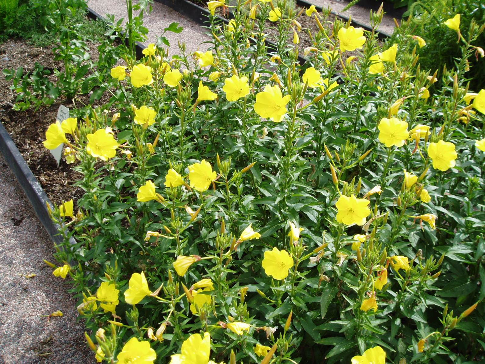 Oenothera biennis